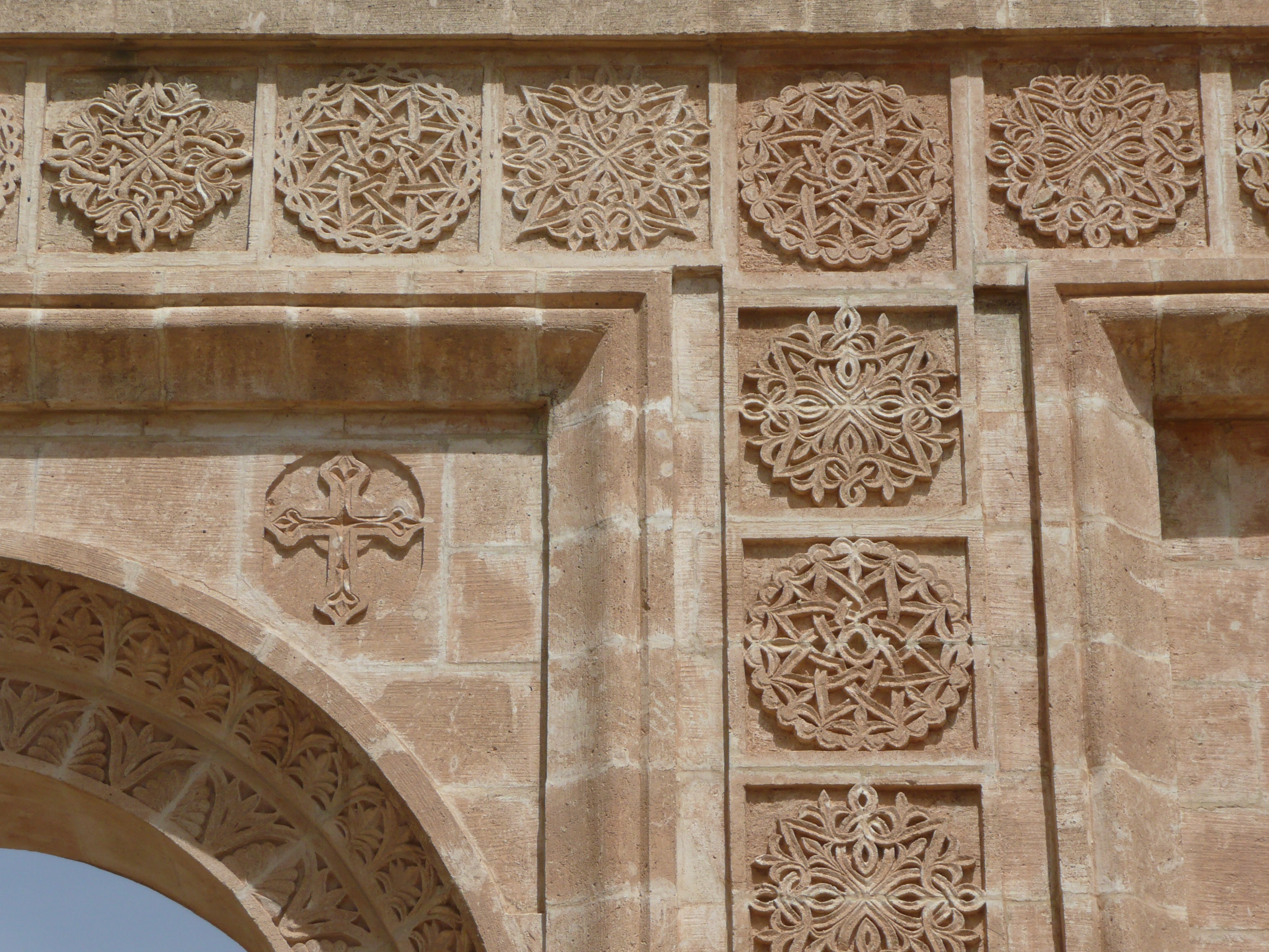 Photographs from Deyrulumur (Mor Gabriel Monastery) , Midyat, Turkey